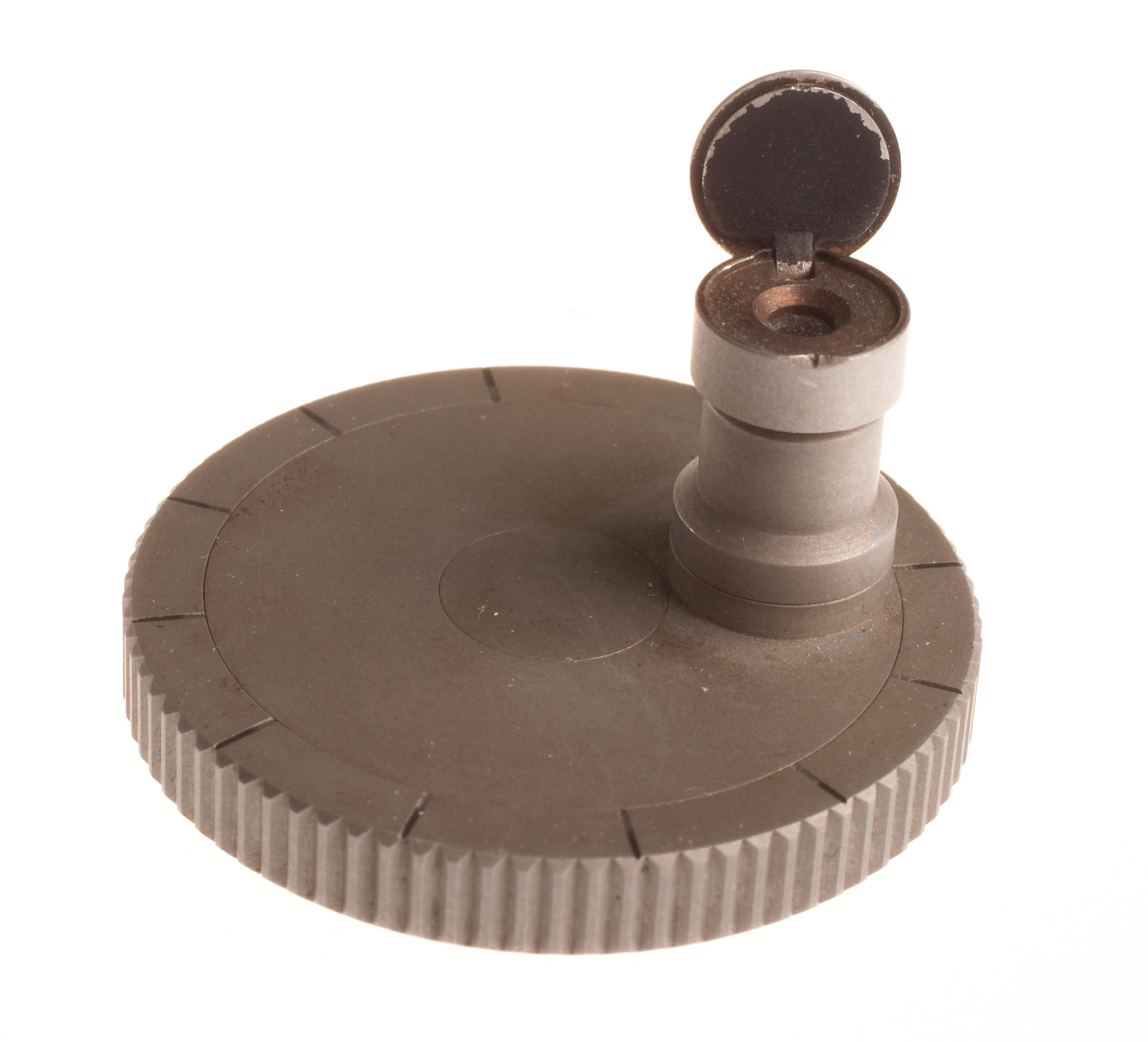 The secret transfer of documents became very difficult during the Cold War. Agents relied on the microdot camera to photograph and reduce whole pages of information onto a single tiny piece of film. This piece of film could be embedded into the text of a letter as small as a period at the end of this sentence. Microdots were also hidden in other things such as rings, hollow coins, or other mailed items. The recipient would read the microdot with the aid of a special viewer, often cleverly concealed as well.